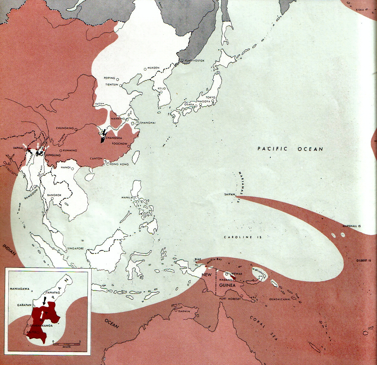 Map of the front against Japan as of 1 July 1944: This map is taken from the source "Atlas of the World Battle Fronts in Semimonthly Phases to August 15th 1945: Supplement to The Biennial report of The Chief of Staff of the United States Army July 1, 1943 to June 30 1945 To the Secretary of War". (See Cover, Forward and Map details)